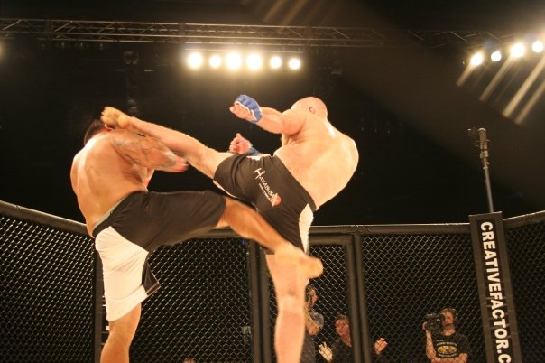 This picture was taken at the Fighters Nation: Urban Conflict Professional MMA(Mixed Martial Arts) event at the Stampede Coral in Calgary, AB, Canada. In this picture you see Edmonton, AB, Canada's TFC "The Fight Club's" fighter Nick Penner engaging with Huntington Beach, California, USA fighter Jimmy "Titan" Ambriz.